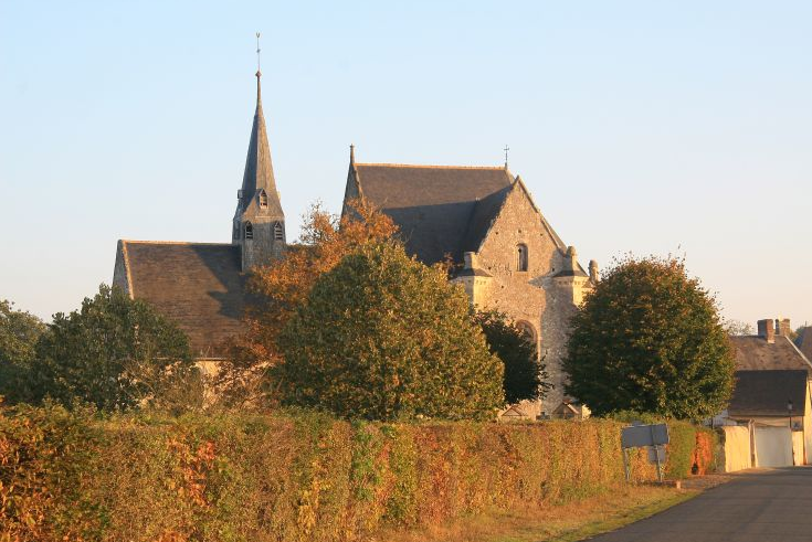 LA BRUERE SUR LOIR church (Sarthe, France)